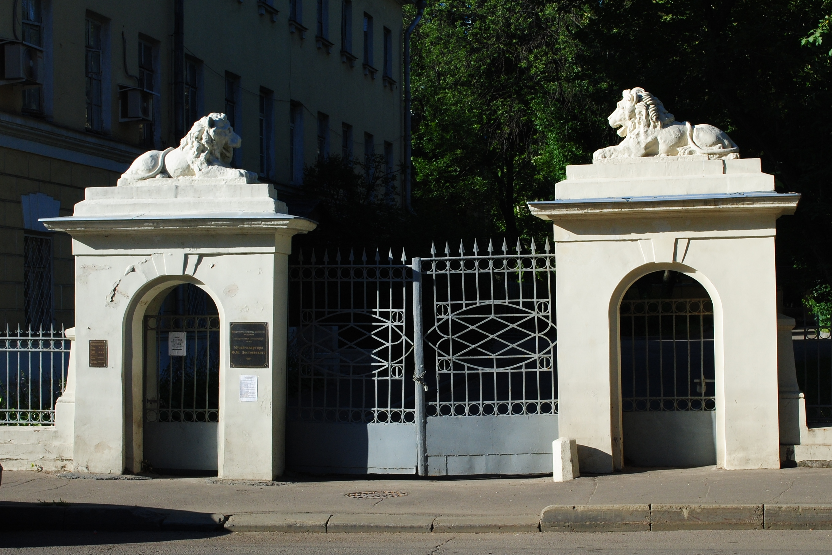 Dostoevsky museum (Moscow)